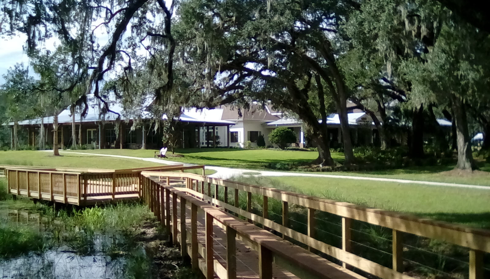 The backside of the Feeney recreational center in 2017.